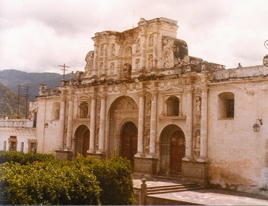 Cathedral, main square, Antigua Guatemala. Photo by Infrogmation, 1979.